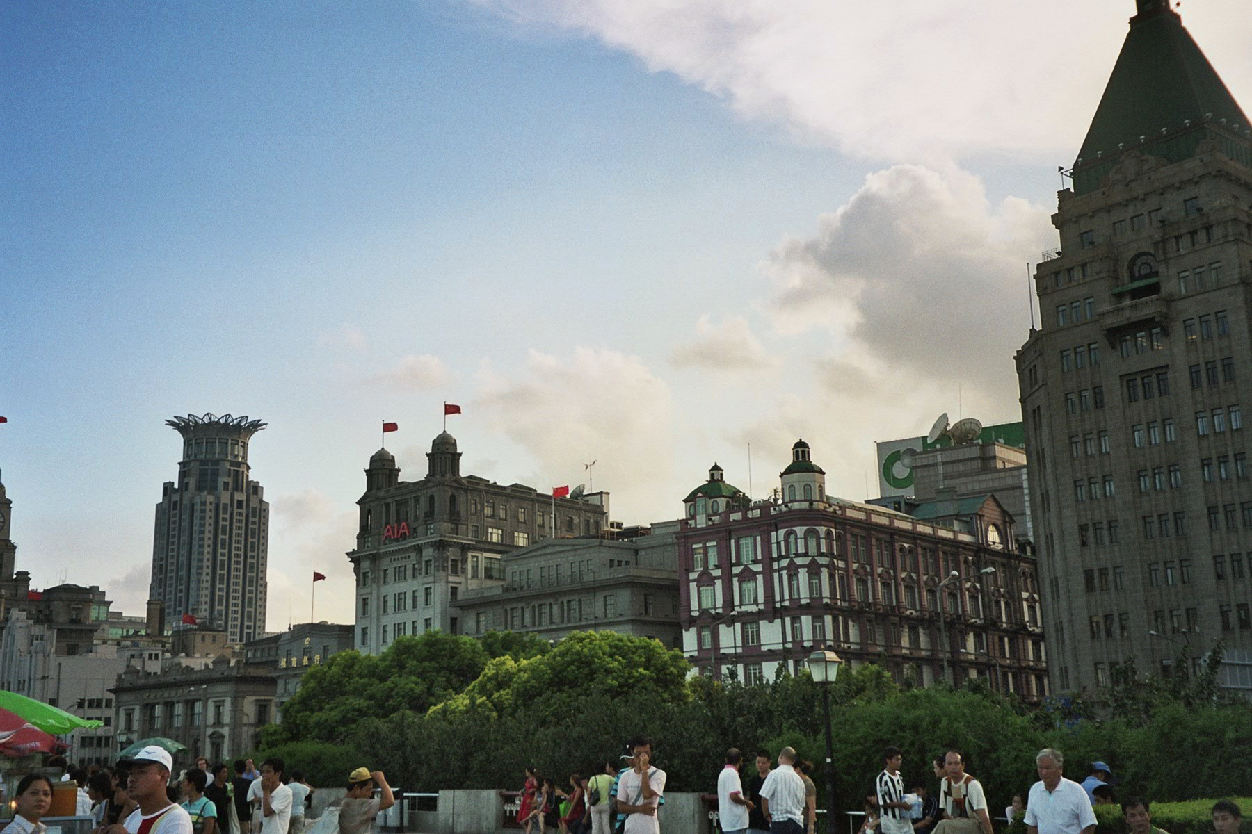 The Bund in Shanghai, September 2006.